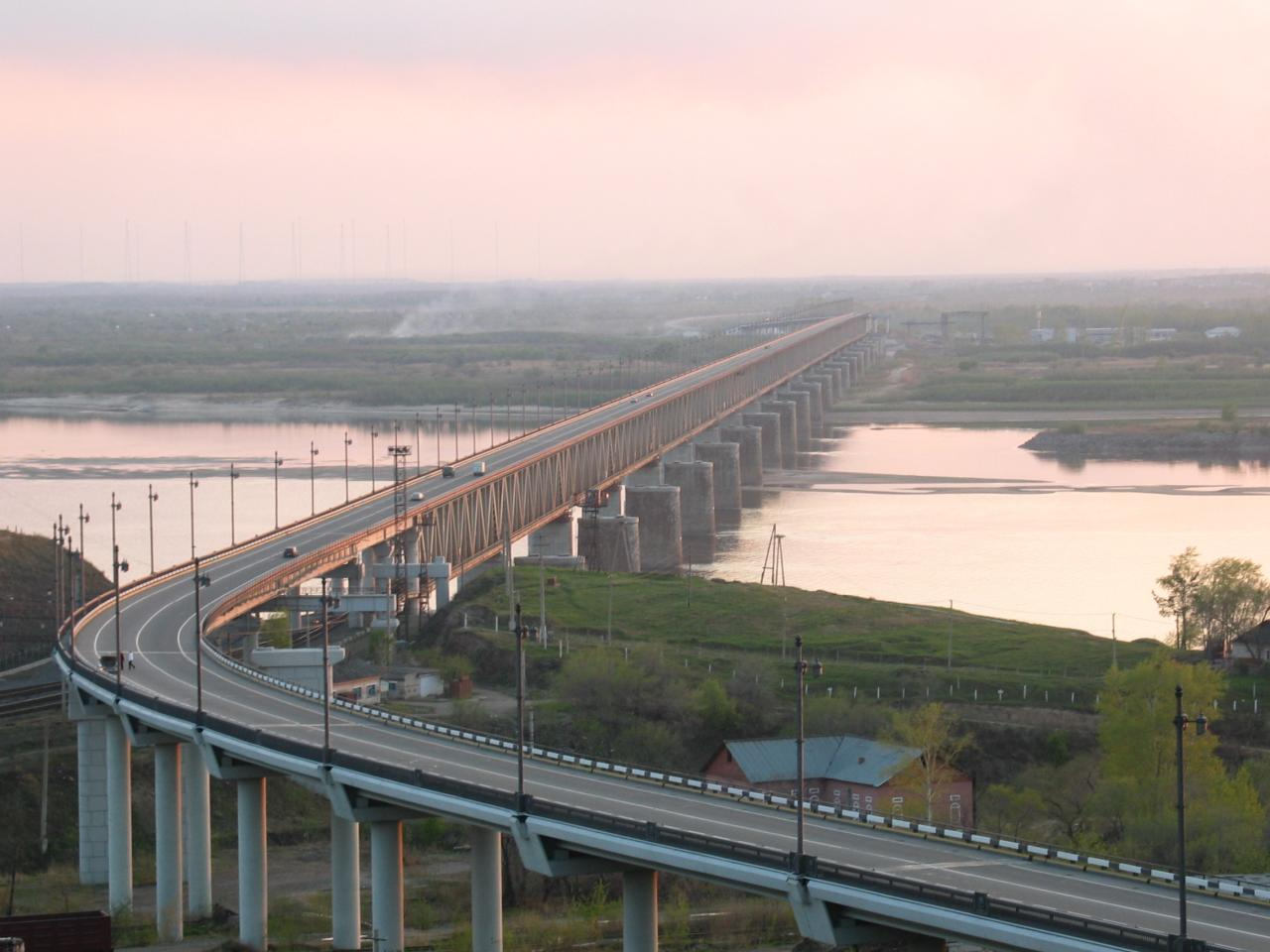 Khabarovsk Bridge over Amur river after its reconstruction in 1999. Photo by Lost Infidel, 2005, given into public domain. The shot of the bridge on a 5000-rouble banknote was made from the same location.